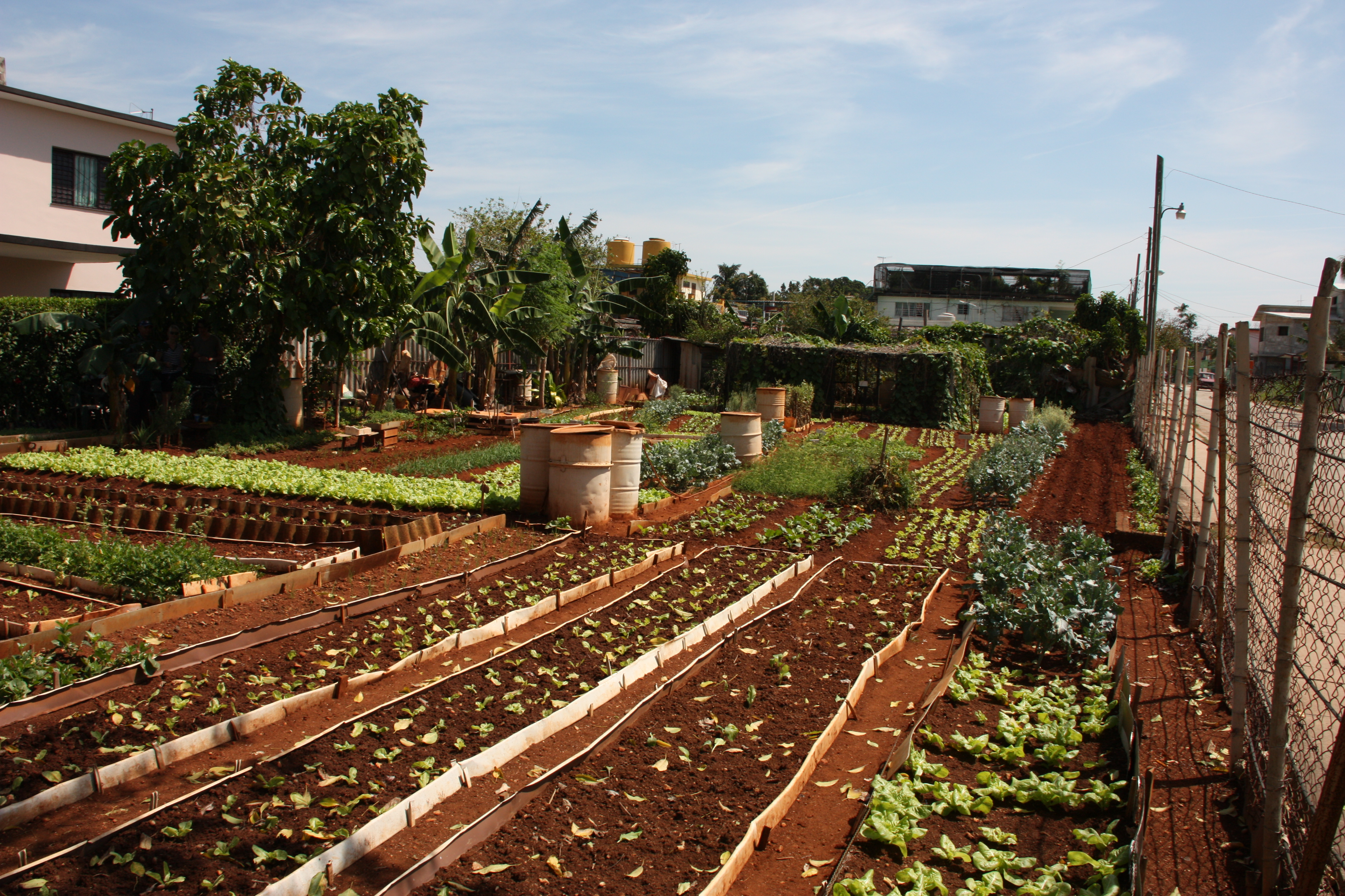 Small urban agriculture business in Havana, Cuba.